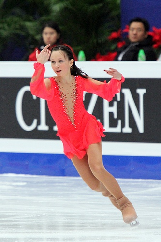 Elizaveta Tuktamysheva at the 2010-2011 ISU Junior Grand Prix Final.